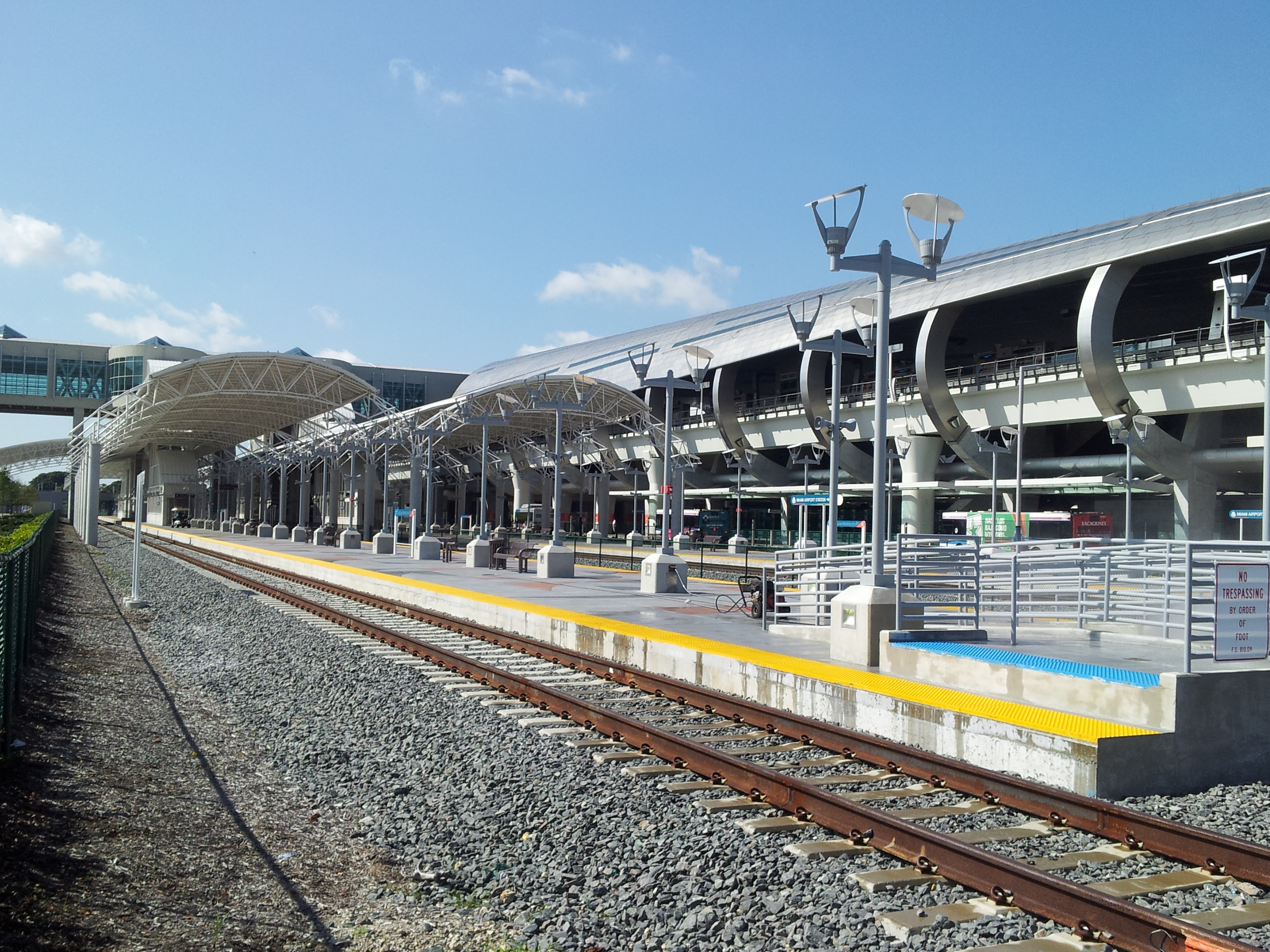 MIC train platforms